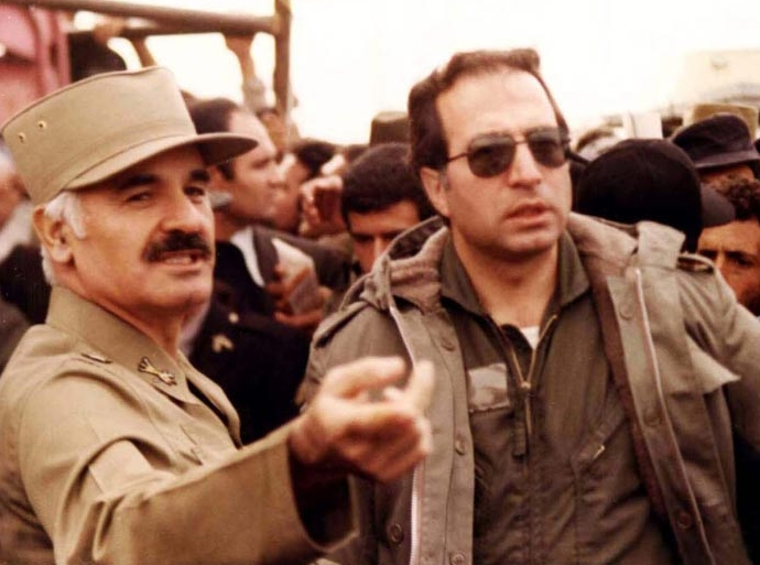 Major General Qasem-Ali Zahir Nejad & Major_General_Javad_Fakori_in_front_of_line_of_Iran-Iraq_war